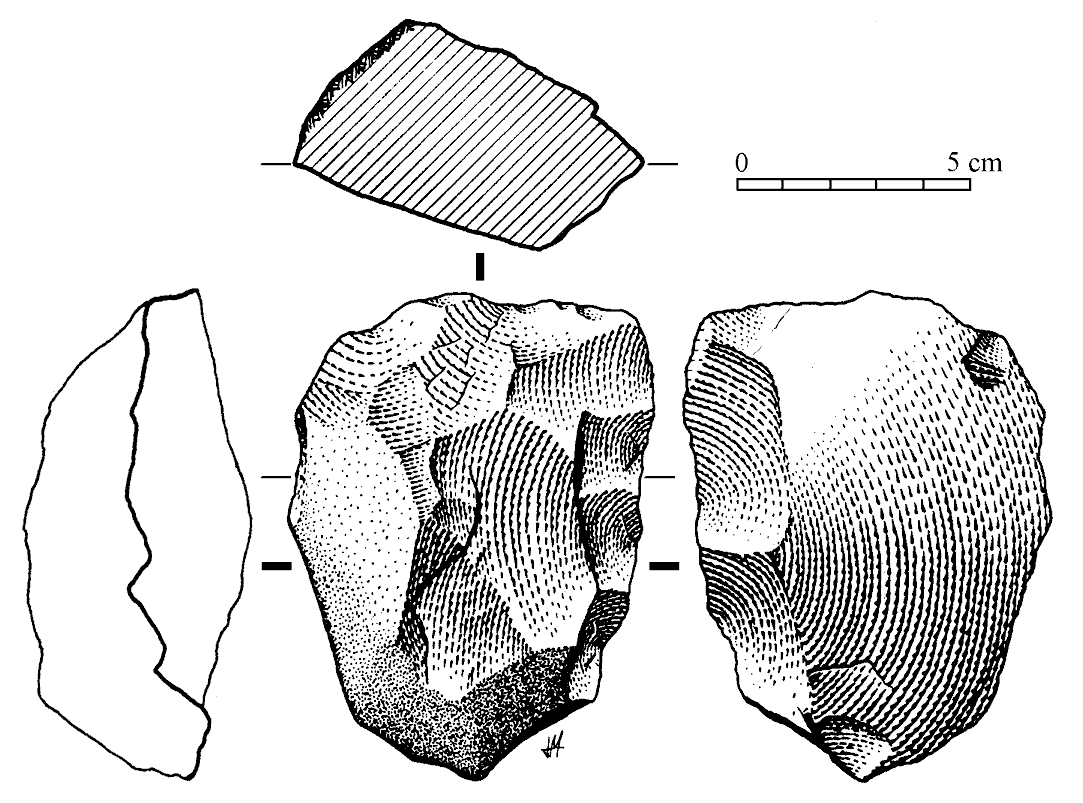 Ex-Cleaver flake, in other words, an original cleaver tool that was transfomed in a chopper with a resharpening of its edge (acheulian site of «El Lombo», Ciudad Rodrigo, Salamanca)